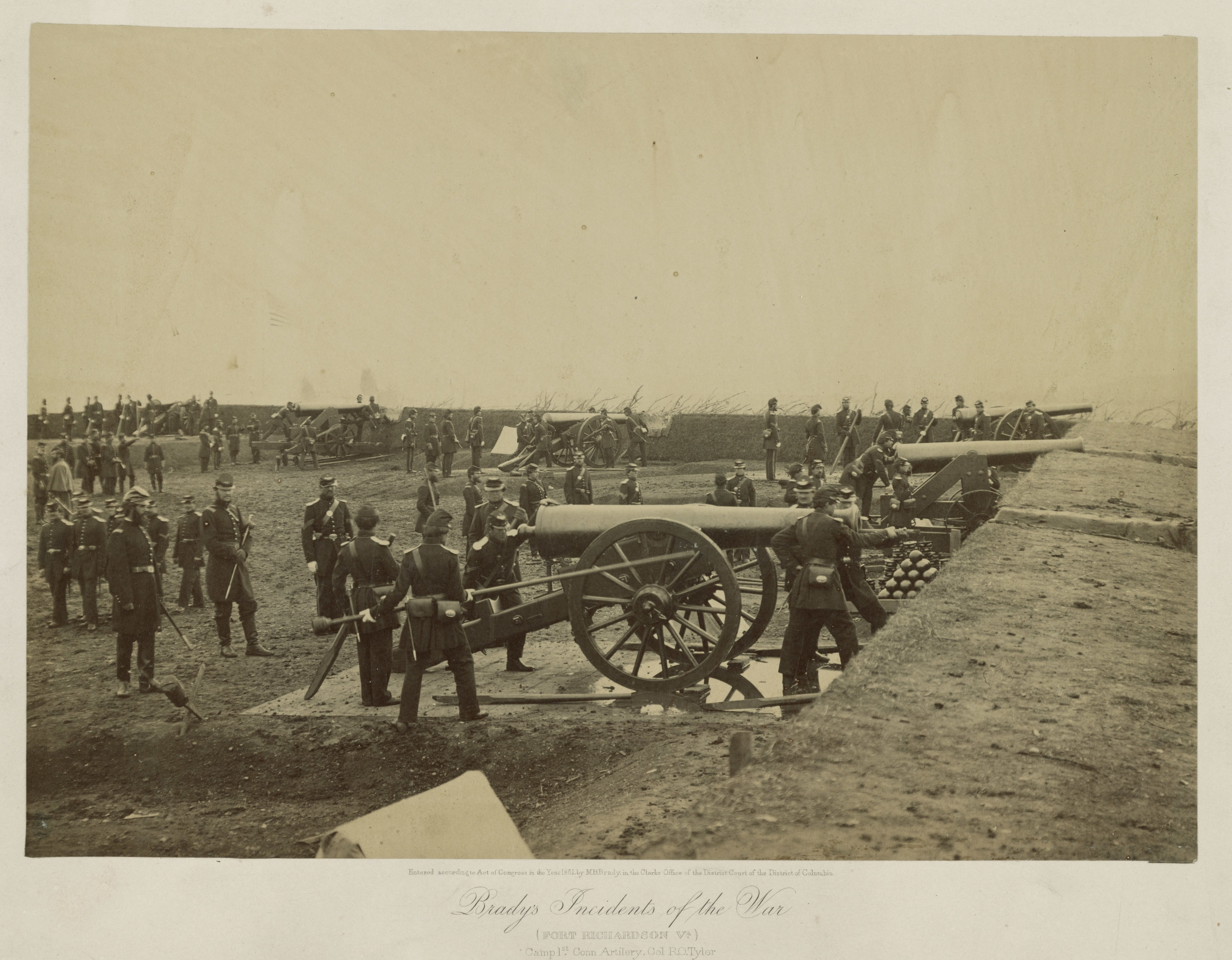 Title: Brady's incidents of the war. (Fort Richardson Va.) Camp 1st. Conn Artilery [sic], Col. R.O. Tyler Abstract/medium: 1 photographic print : albumen ; 10 x 14 1/4 in. (image), 14 x 18 in. (sheet)